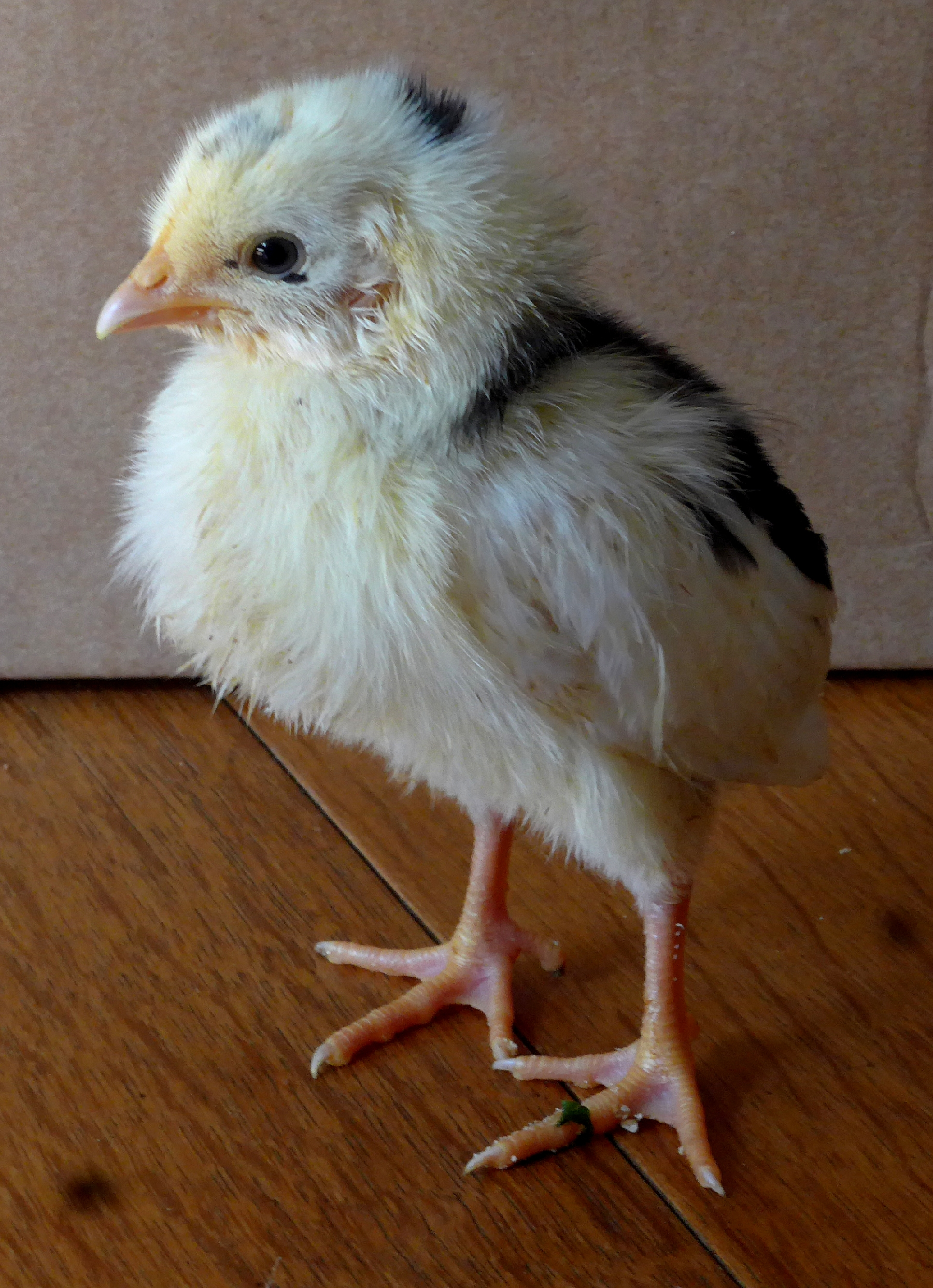 Leghorn, white/black, chick, 8 days